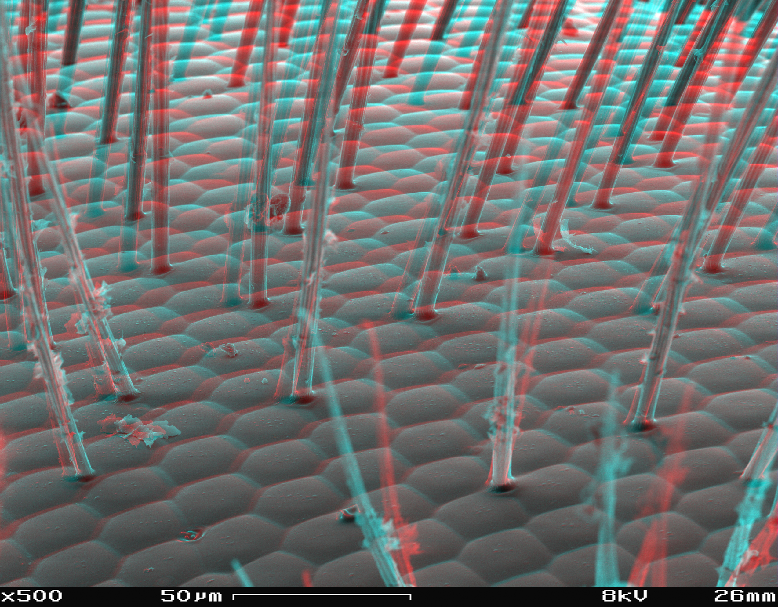 This is a stereoscopic view (anaglyph) of a bee´s eye, done from a set of stereo SEM (scanning electron microscope) images.